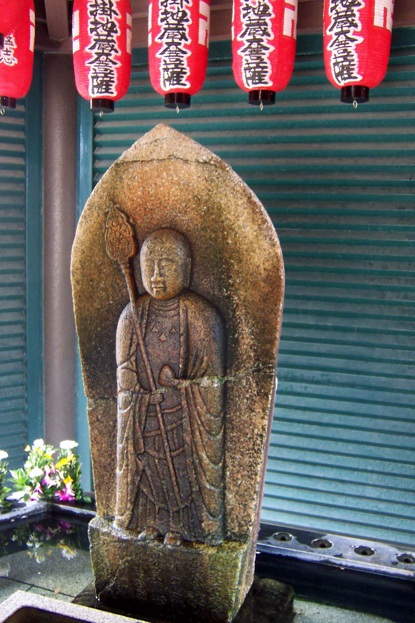 A jizo statue at the Mibu-dera, a buddhist temple in Kyoto, Japan